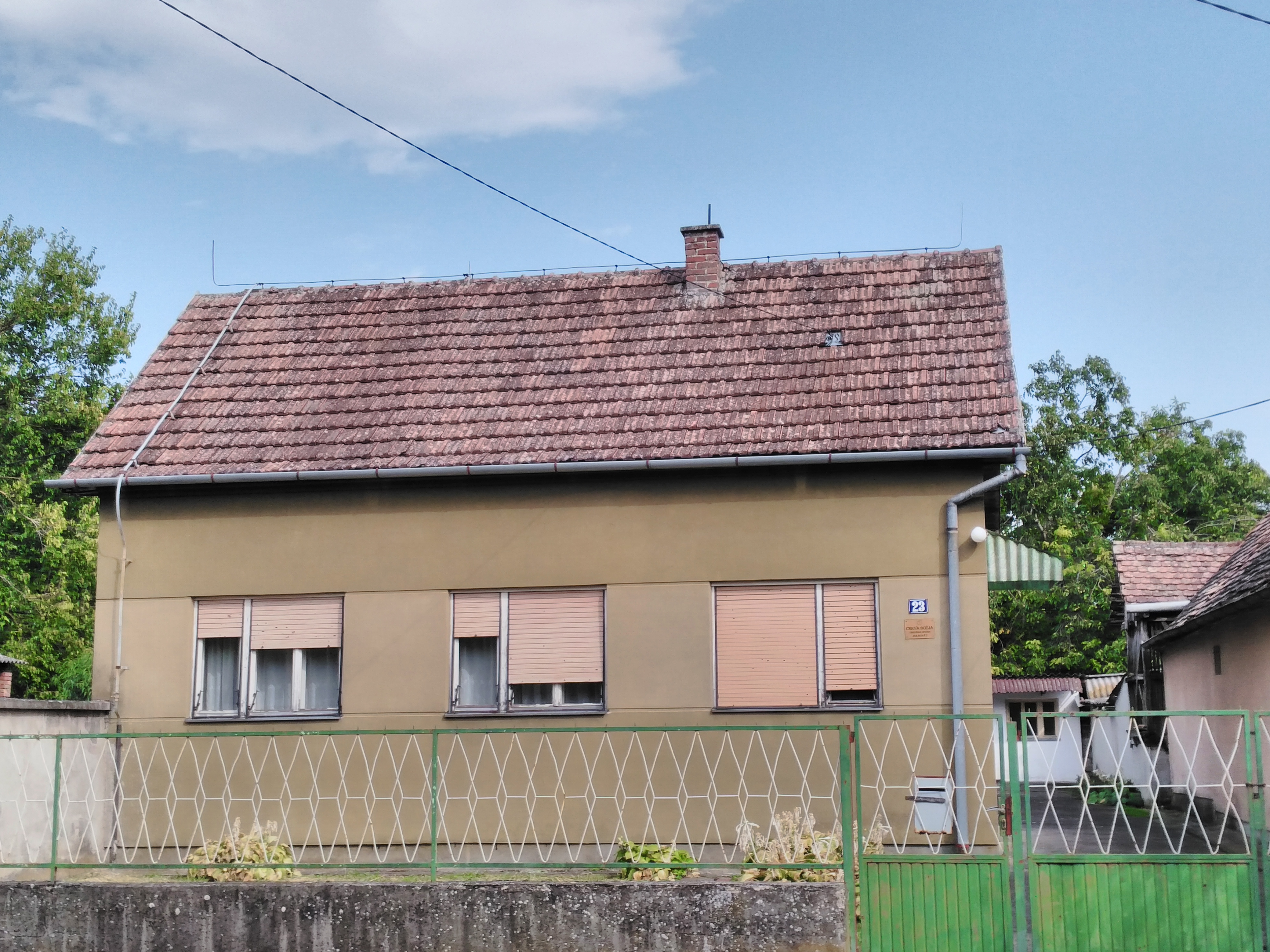 Local Church of God in Banovci.